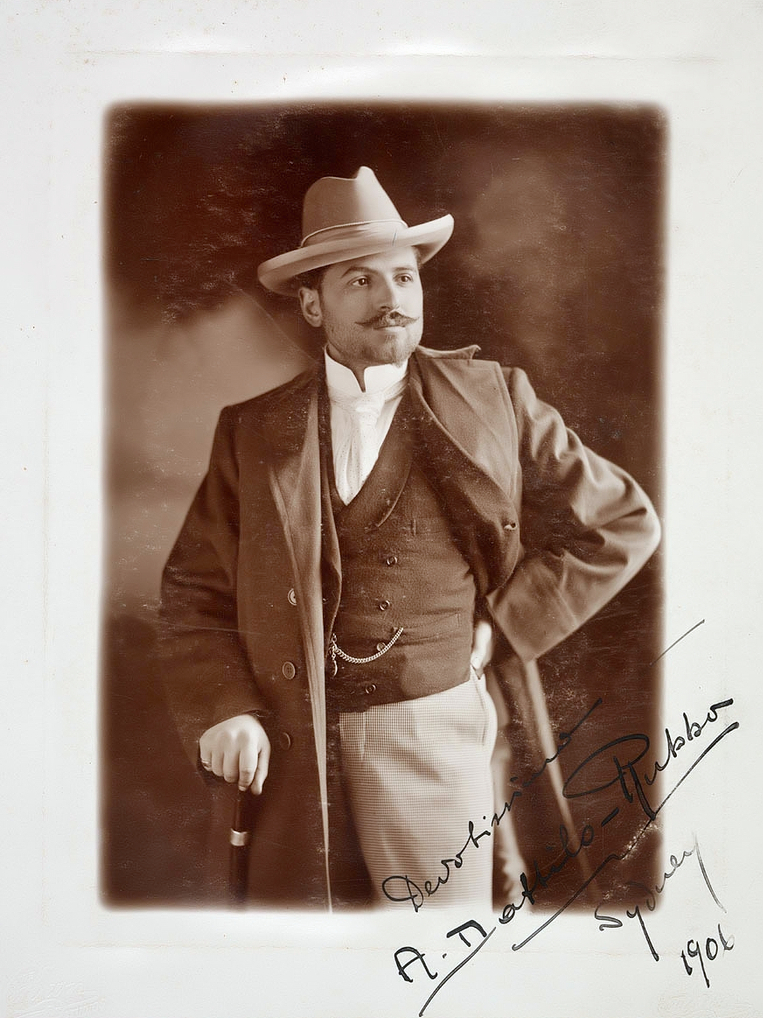 From the collections of the State Library of NSW: Dattilo Rubbo pictorial material.